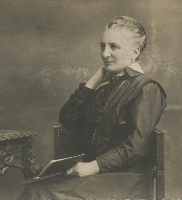 Jagoda Truhelka, writer, on 1916 postcard from Sarajevo